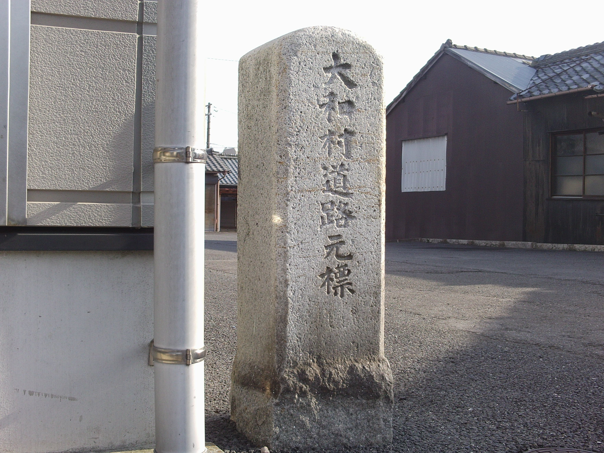 Kilometre zero of Yamato village. (Yamato village, Nakashima-gun, Aichi.)